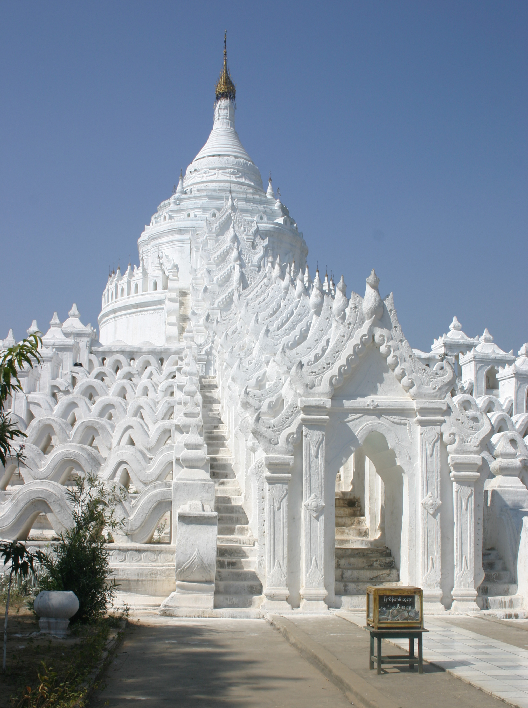 Hsinbyume-Pagoda, Mingun, Myamar